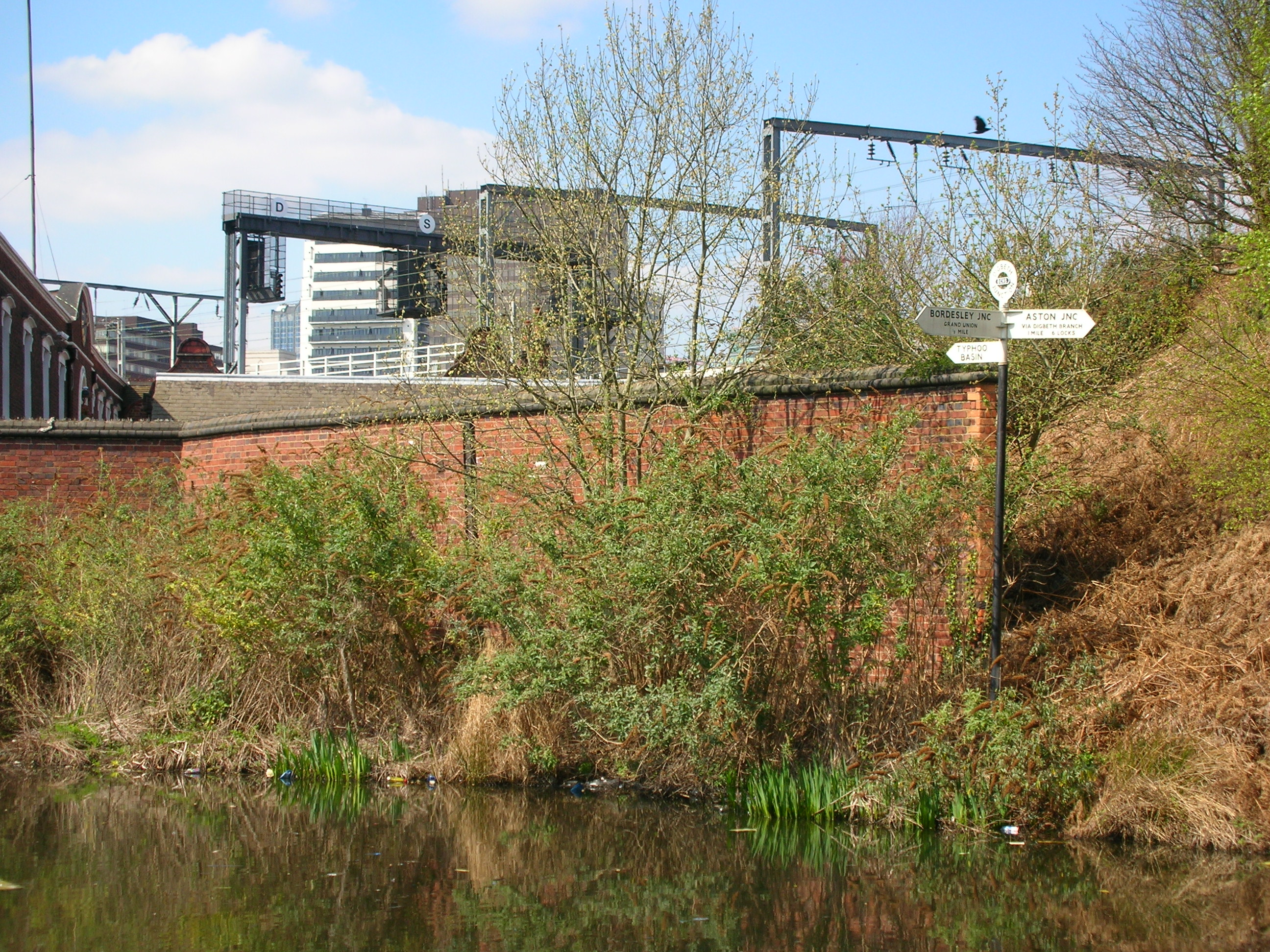 Proof House Junction at the back of Birmingham Proof House on the Digbeth Branch Canal, Birmingham, England, 50m from the Warwick Bar stop lock. Signposted left is a 100m branch to Typhoo Basin. Photographed by me 11 April 2007. Oosoom